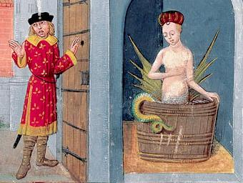 Cropped version of painting: From english Melusine's secret discovered, from Le Roman de Mélusine. One of sixteen paintings by Guillebert de Metz ~1410. 18:24, 17. Dez 2004 . . DreamGuy (Talk) . . 598 x 301 (66.978 Bytes) ( Melusine's secret discovered, from Le Roman de Mélusine. One of sixteen paintings by Guillebert de Mets ~1410.)